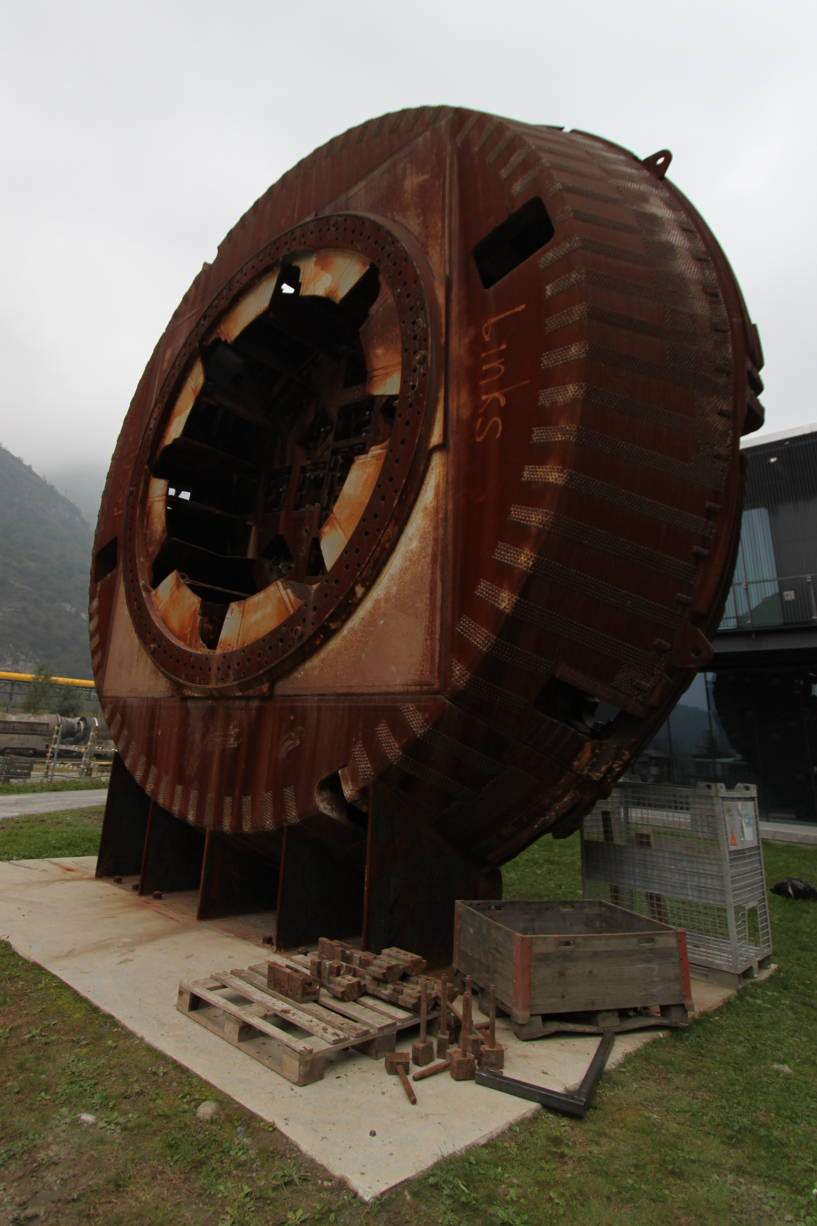 This drill head is standing in front of the visitor centre in Pollegio, TI (Switzerland). It was used to drill a part of the Gotthard Base Tunnel.